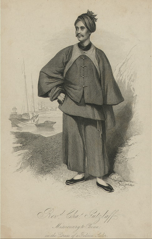 Karl Gutzlaff in the dress of a Fokien sailor.